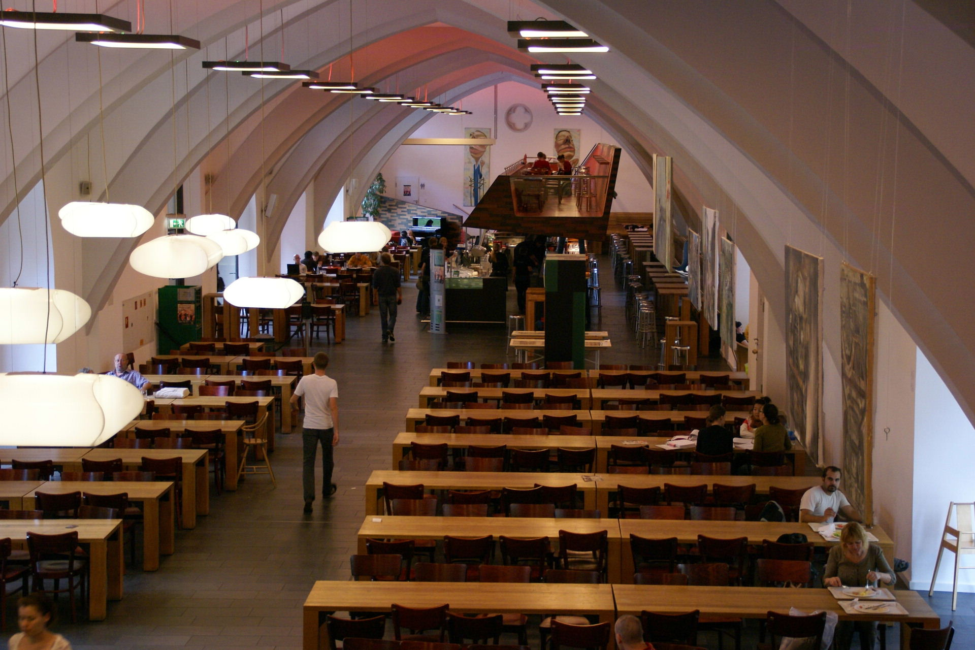 zeughaus-dining hall at Studentenwerk Heidelberg, Germany